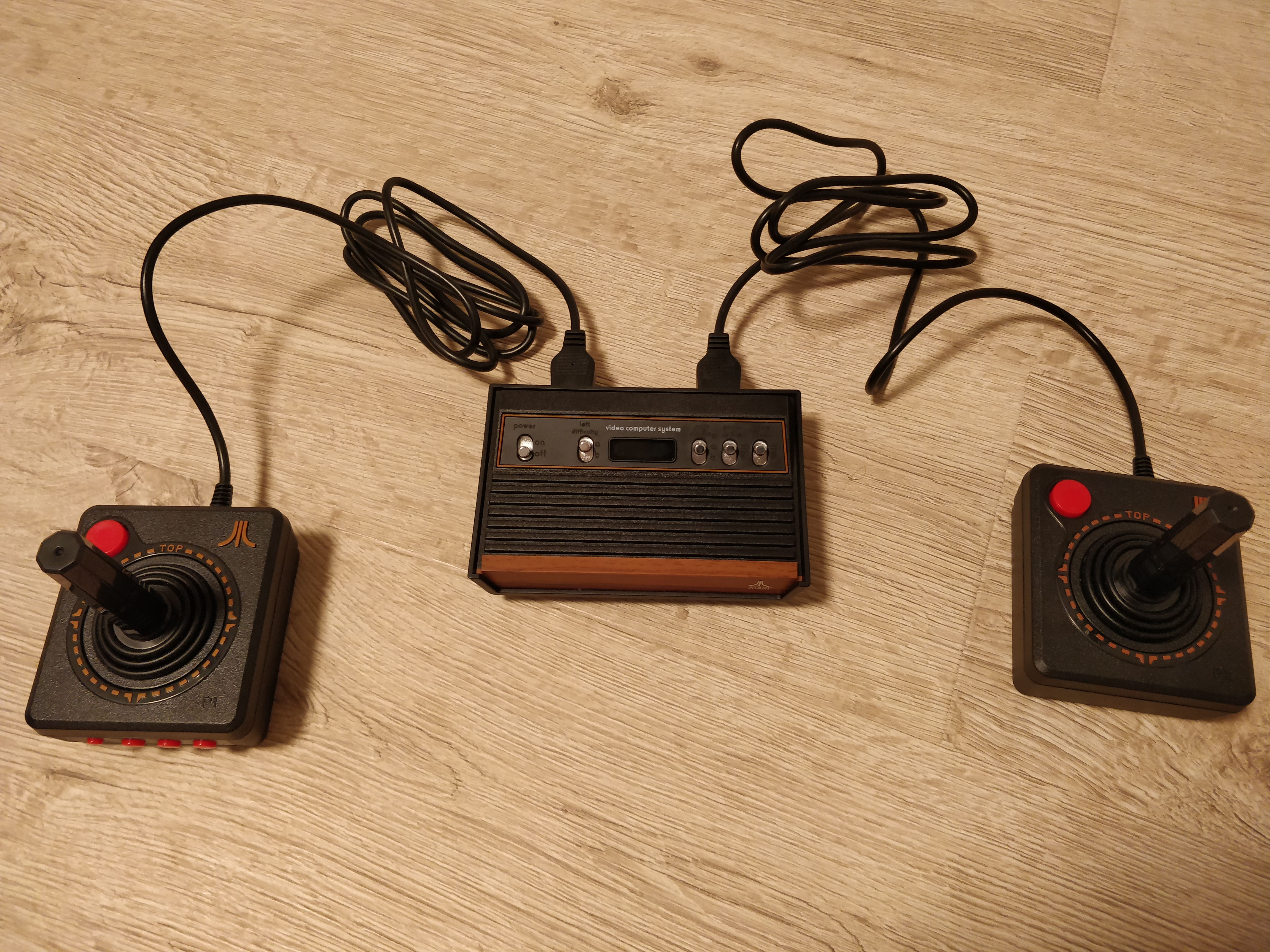 Atari Flashback X Deluxe video game console